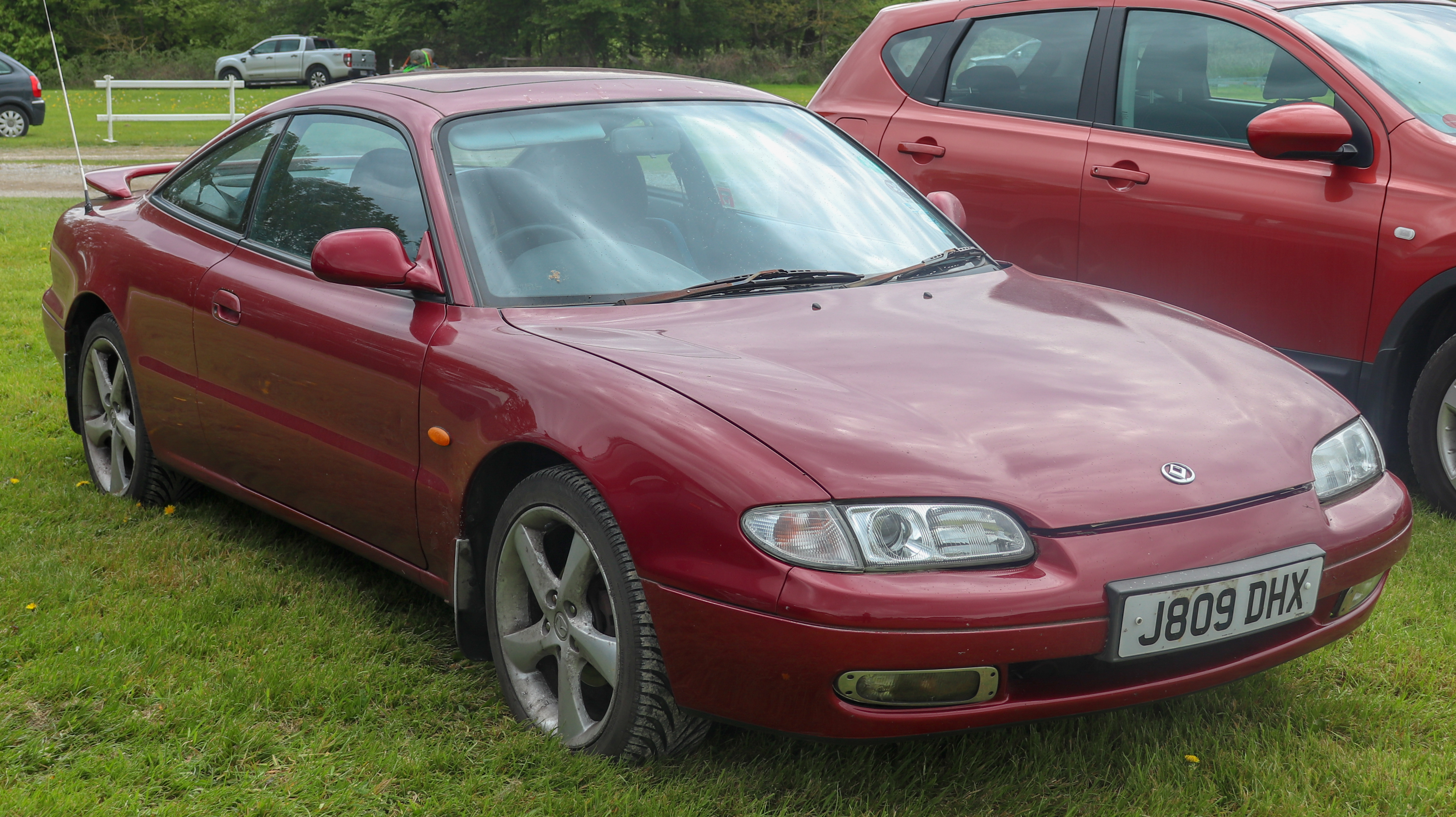 1992 Mazda MX-6 V6 ABS 2.5 Front Taken in NAEC Stoneleigh, Warwickshire